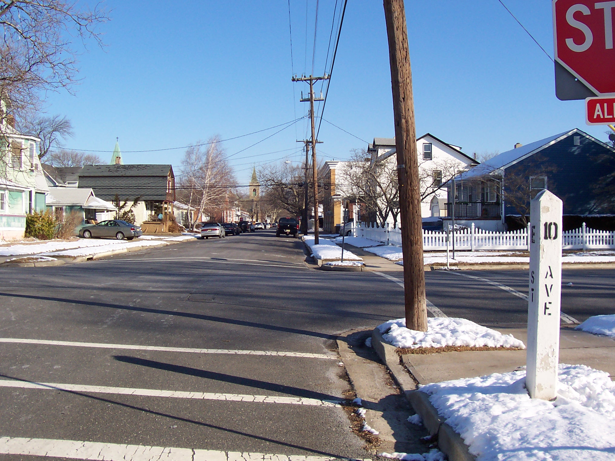 Picture taken by me on February 5th, 2009. The location is at the intersection of "E Street" & "10th Avenue" in Belmar, New Jersey.